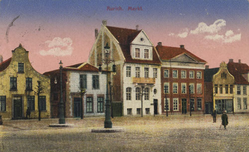 Aurich, marketplace around 1900